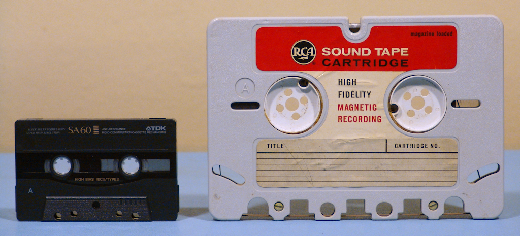 RCA quarter-inch tape cartridge, shown with standard compact cassette for size comparison.